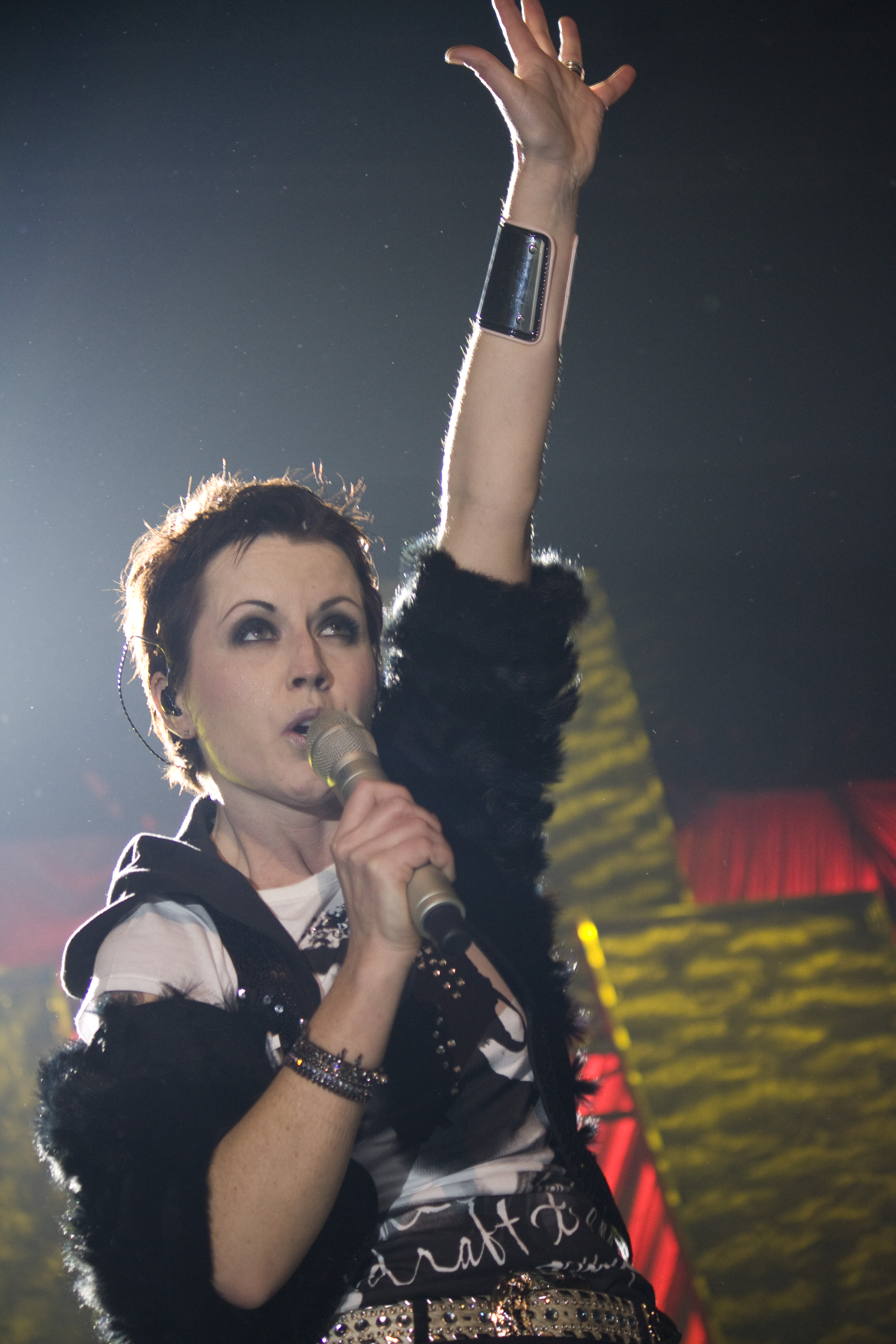 The Cranberries live in Barcelona 2010-03-13